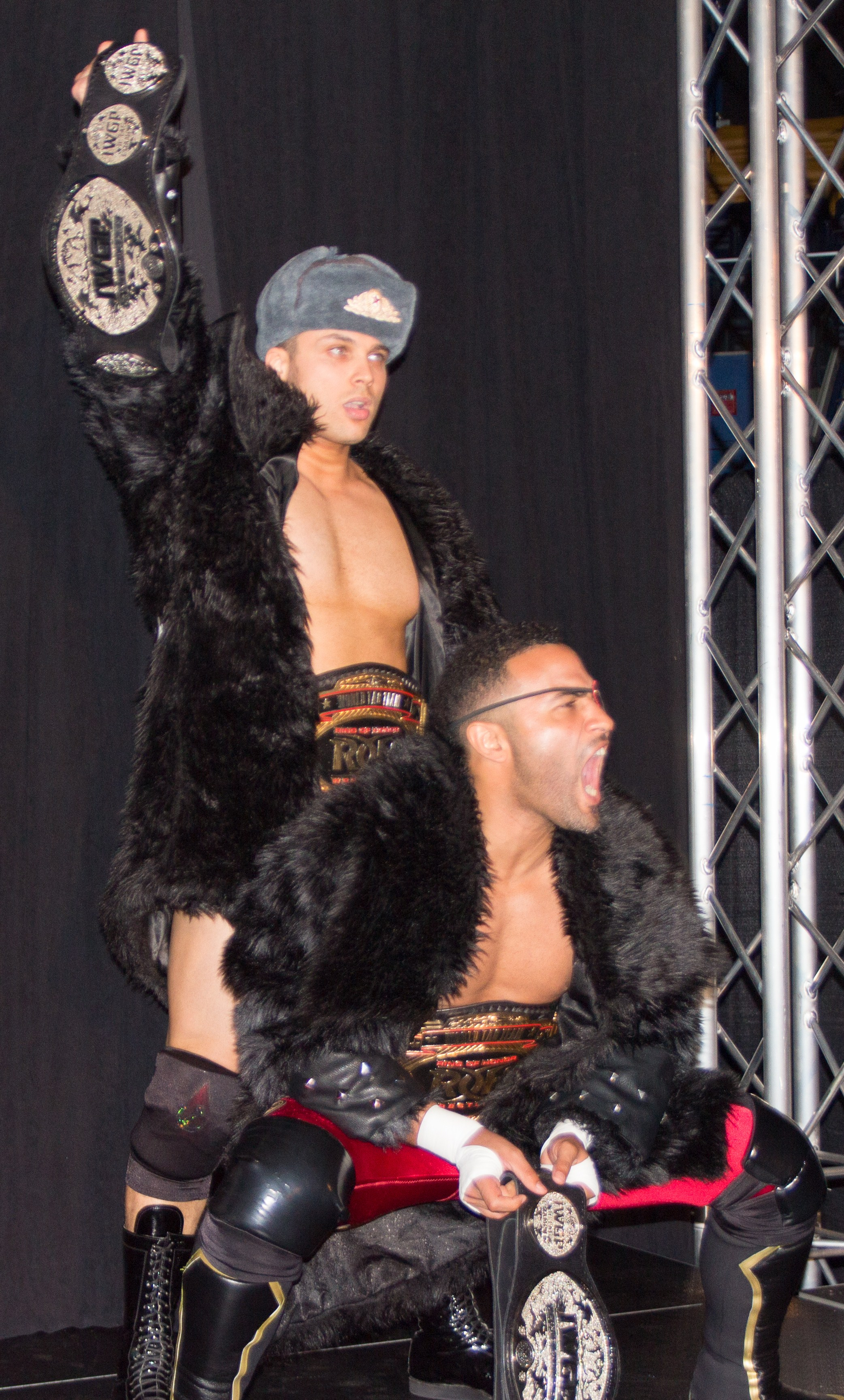 Independent wrestling tag team The Forever Hooligans - Alex Koslov (standing with Russian fur cap on) and Rocky Romero - making their ring entrance at Ring of Honor's All Star Extravaganza in Toronto, ON